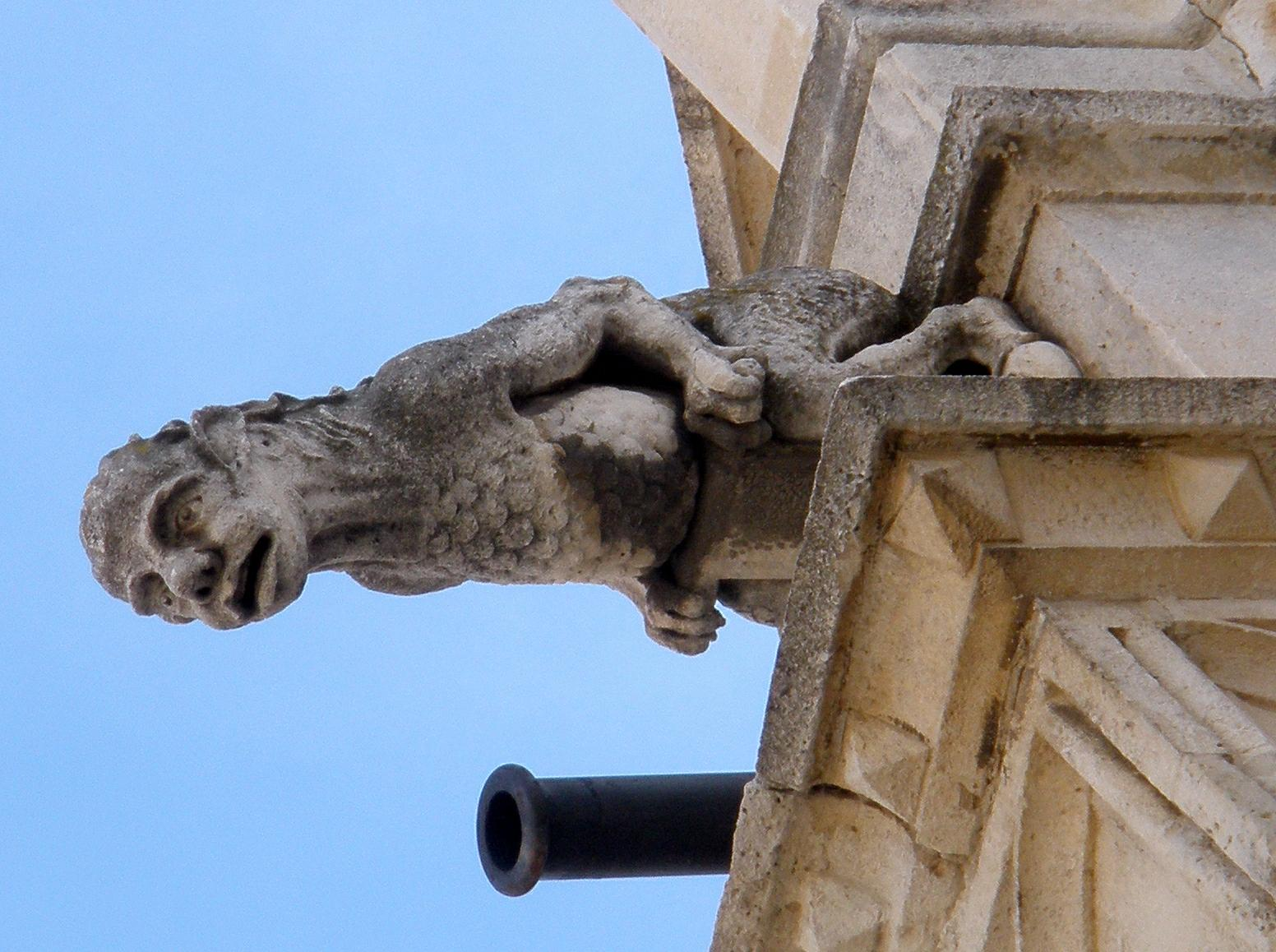 Gárgola en la Catedral de Palencia. Castilla y León, España